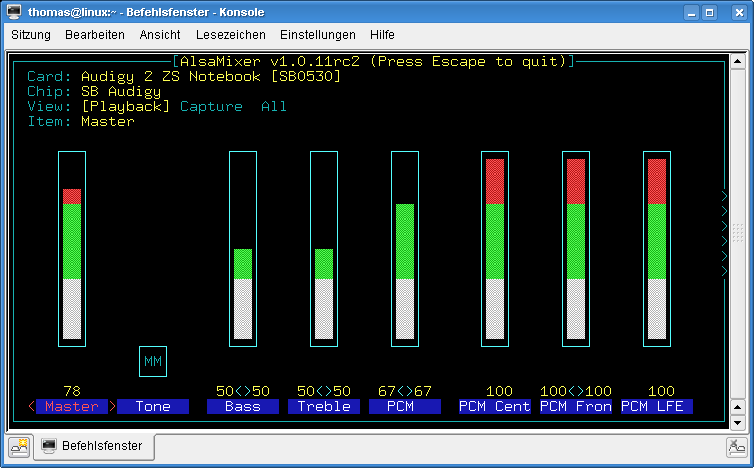 Screenshot of AlsaMixer 1.0.11rc2 under KDE 3.5.3 (German) in a Konsole window.